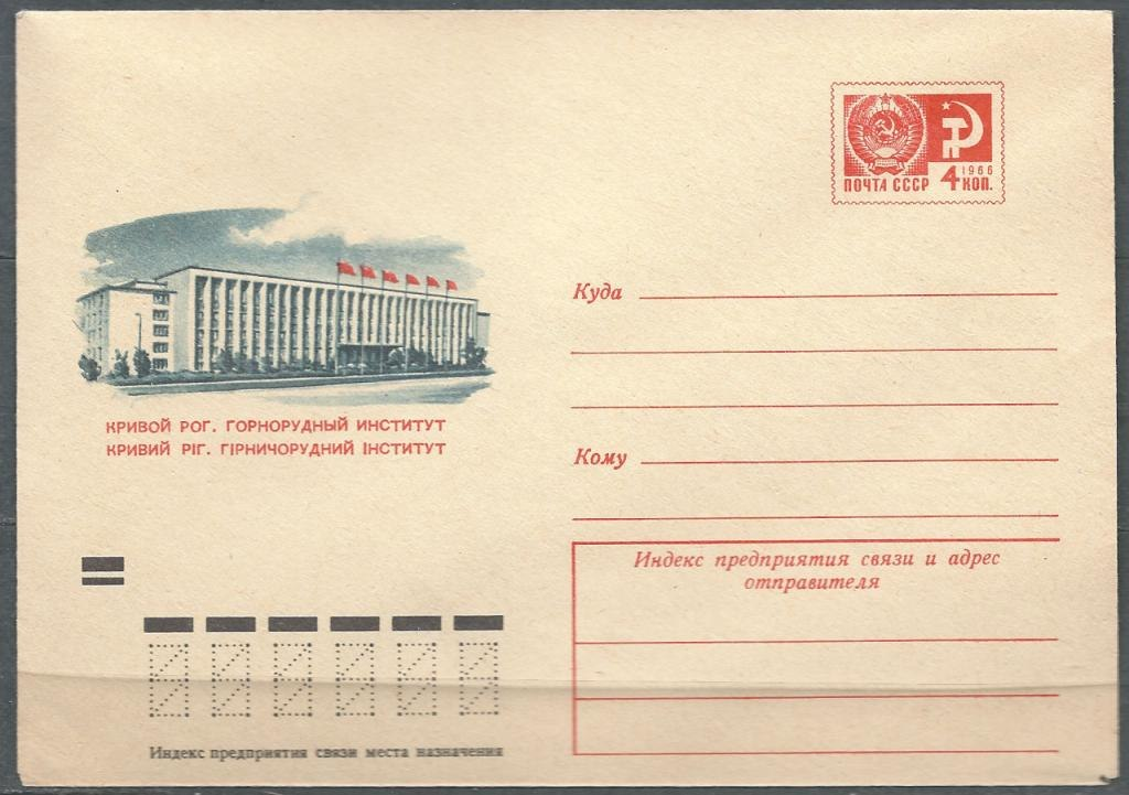 Krivoi Rog Soviet Post cover